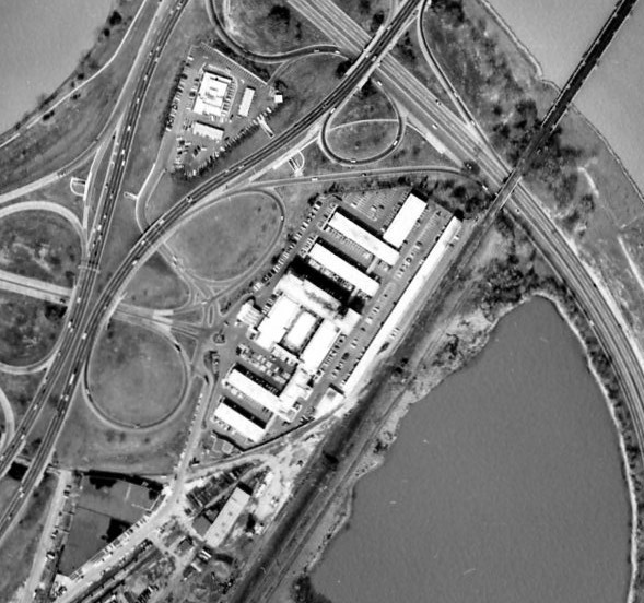 Detail showing the Twin Bridges Marriott as cropped from an archival photo dated 27 February 1965. Monochrome. Aerial photo showing the western short of the Potomac River, the landings of the Long Bridge (RF&P Railroad) and 14th Street Bridge.